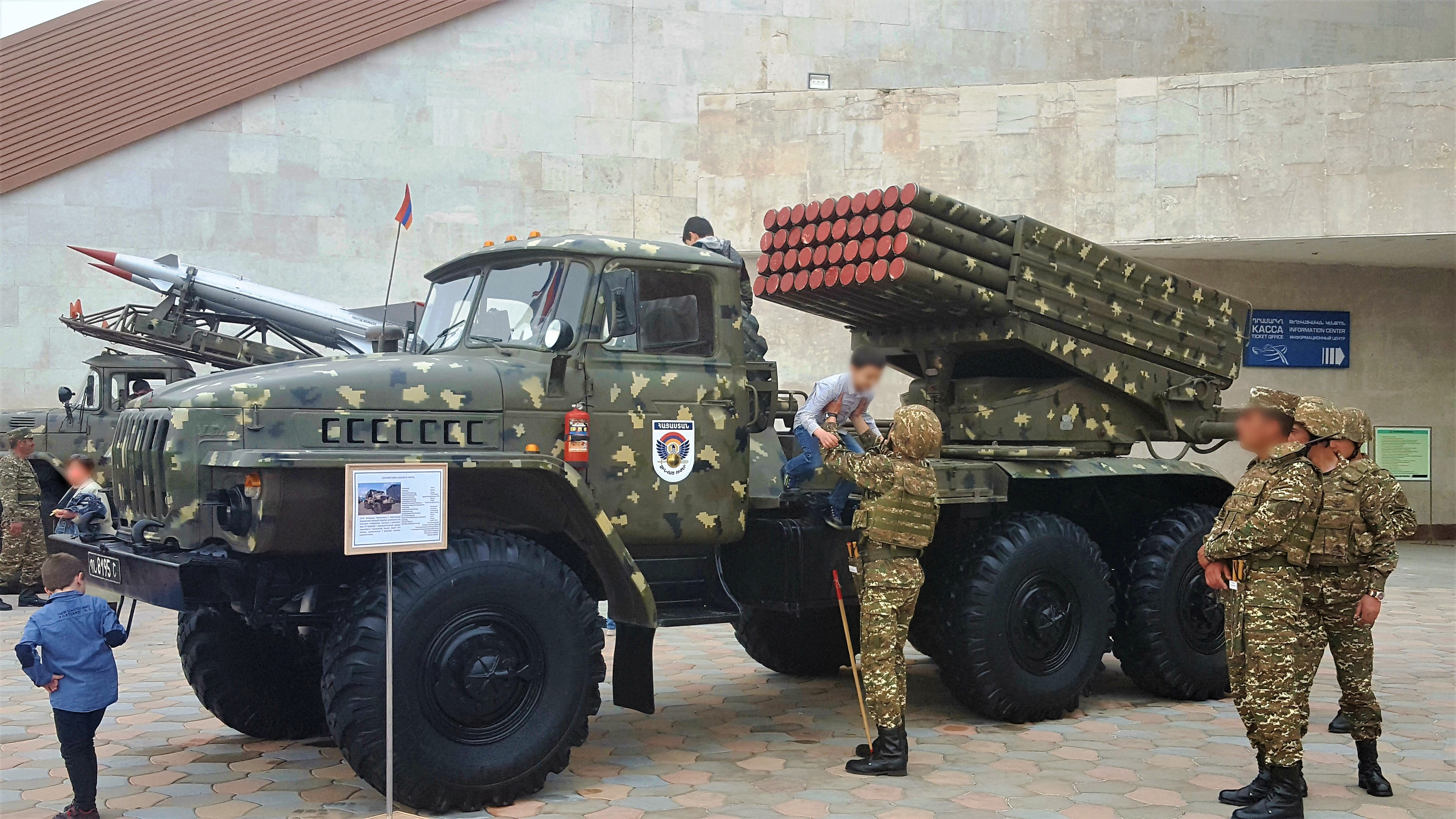 BM-21 Grad on display at the Karen Demirchyan Complex (Hamalir)